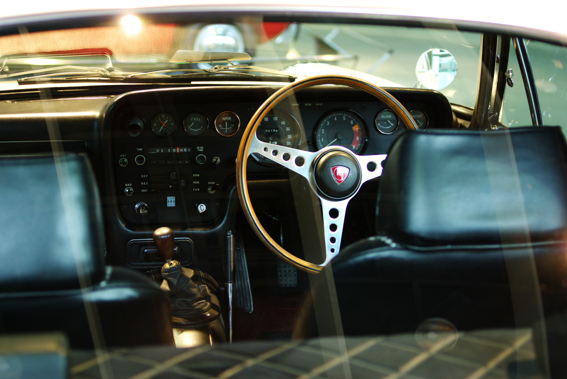 The instrument panel of Mazda 110S (L10B). It took a photograph at Toyota museum.